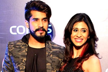 at colors bash